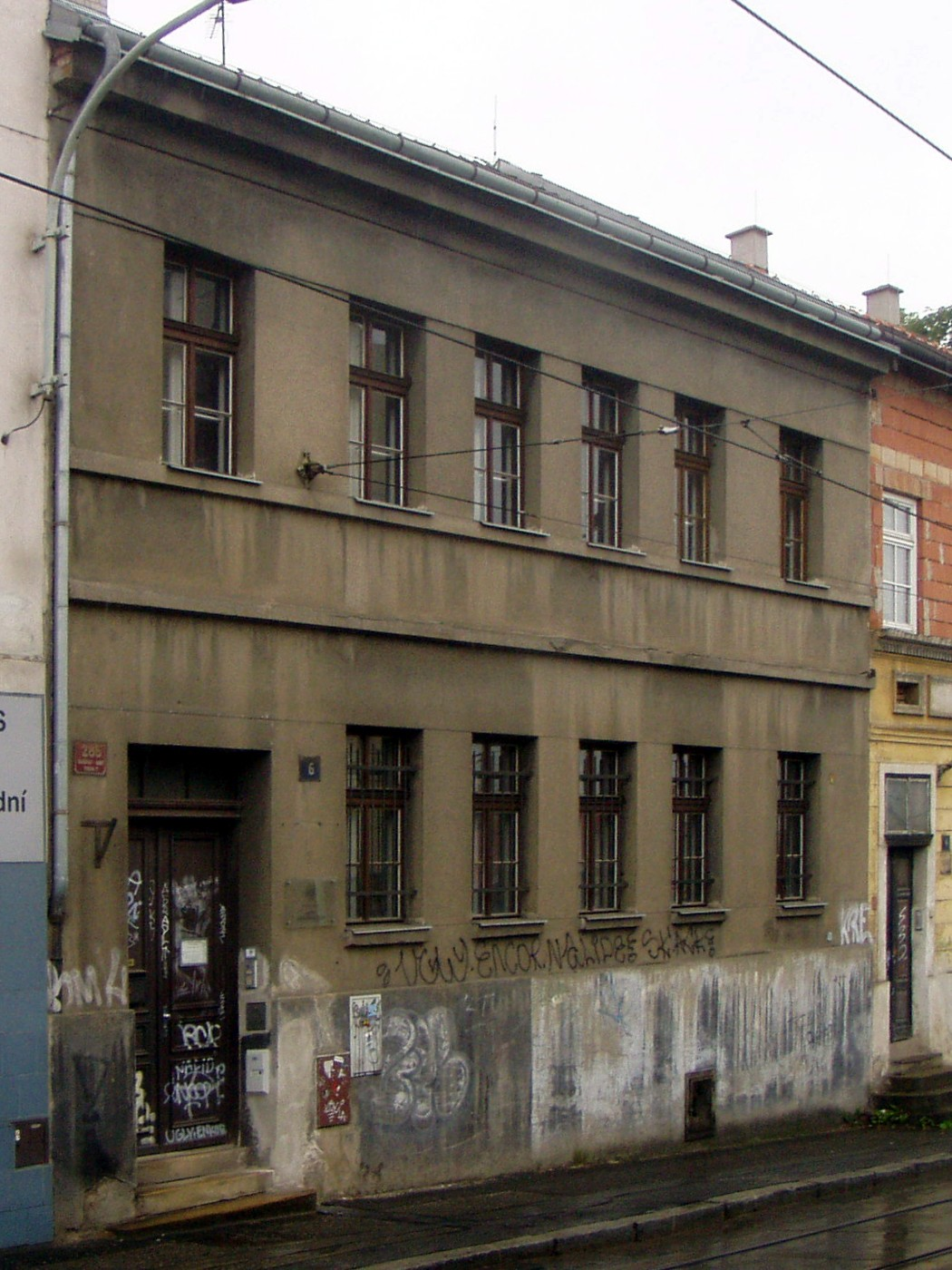 Building of Archiv Národního muzea (Archives of National Museum) in Prague-Holešovice.